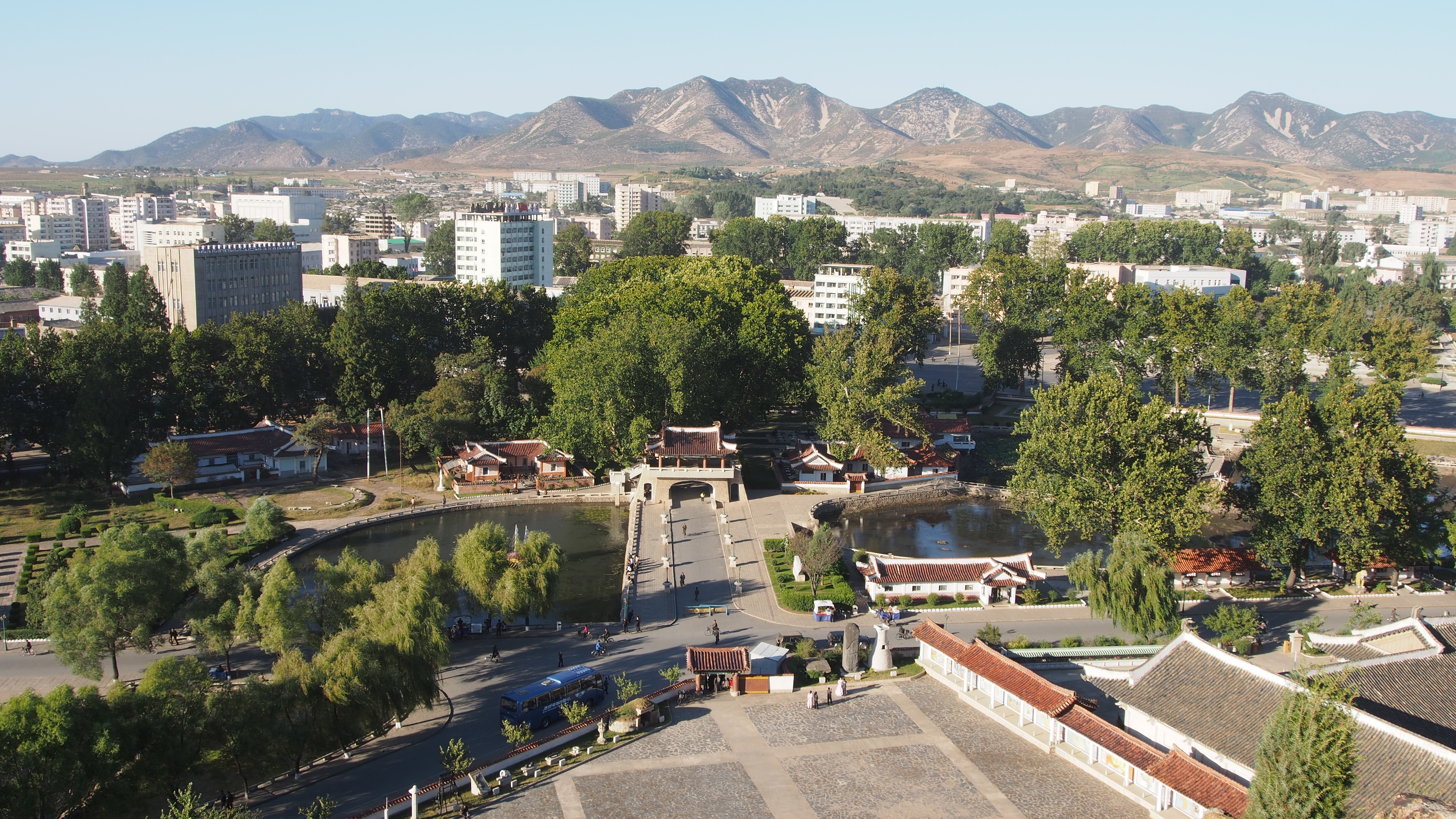 Capital of North Hwanghae province